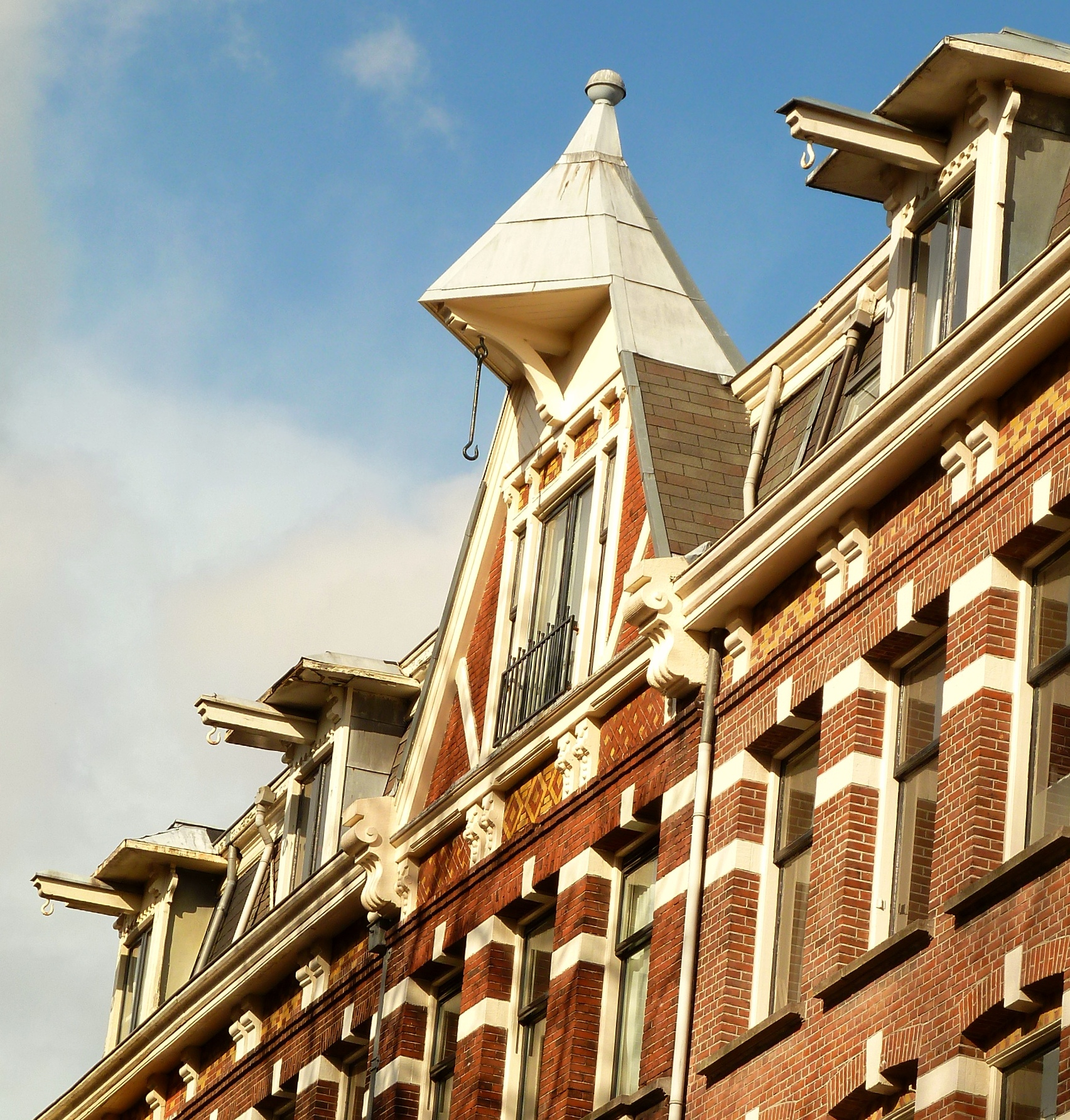 Sarphatipark 123, Amsterdam, Netherlands